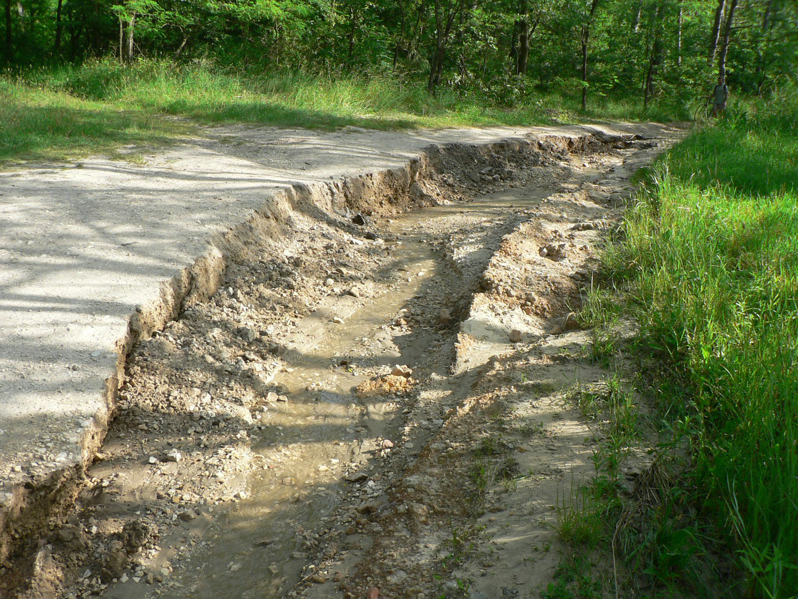 Jági-tavi gátszakadás nyomai